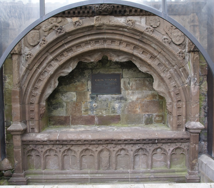 St Machar's Cathedral, Aberdeen, Scotland - tomb of bishop Gavin Dunbar in transept